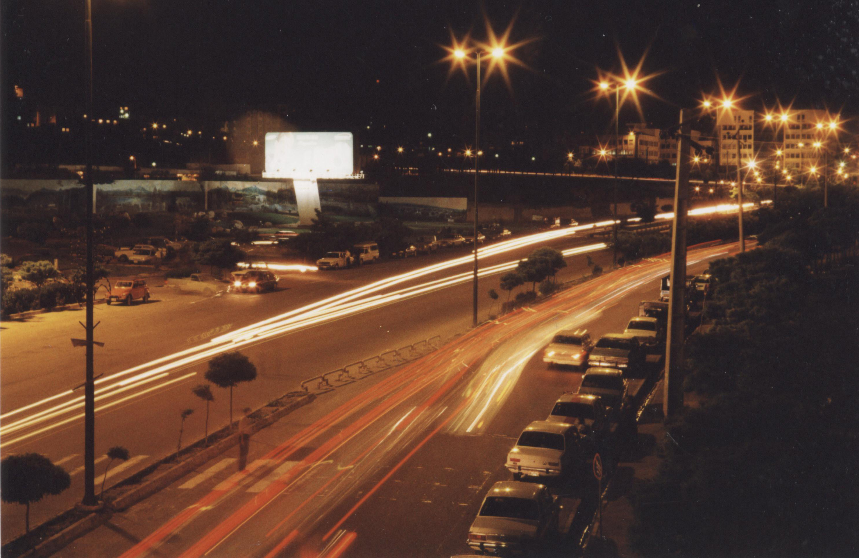 Night Photography - Tabriz.